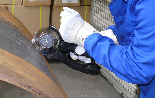 Bristle Blasting on a tube